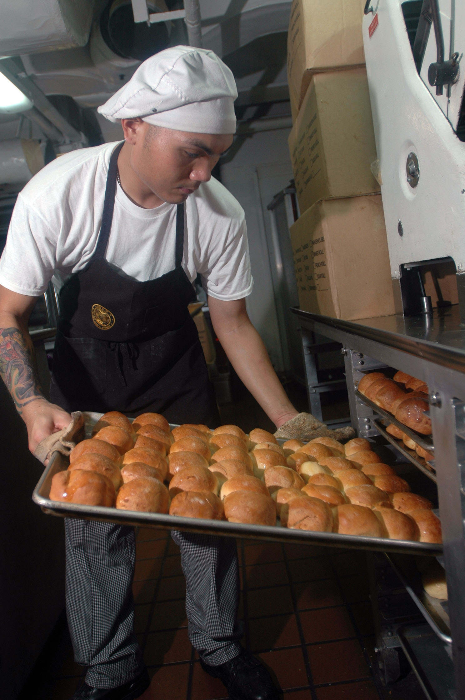 Seaman Mark Andaya prepares fresh rolls for the evening meal in the aft galley of the aircraft carrier USS John C. Stennis (CVN-74) on Nov. 7, 2006. Andaya is a U.S. Navy culinary specialist aboard the Stennis, which is currently the flagship for Commander, Carrier Strike Group 3.